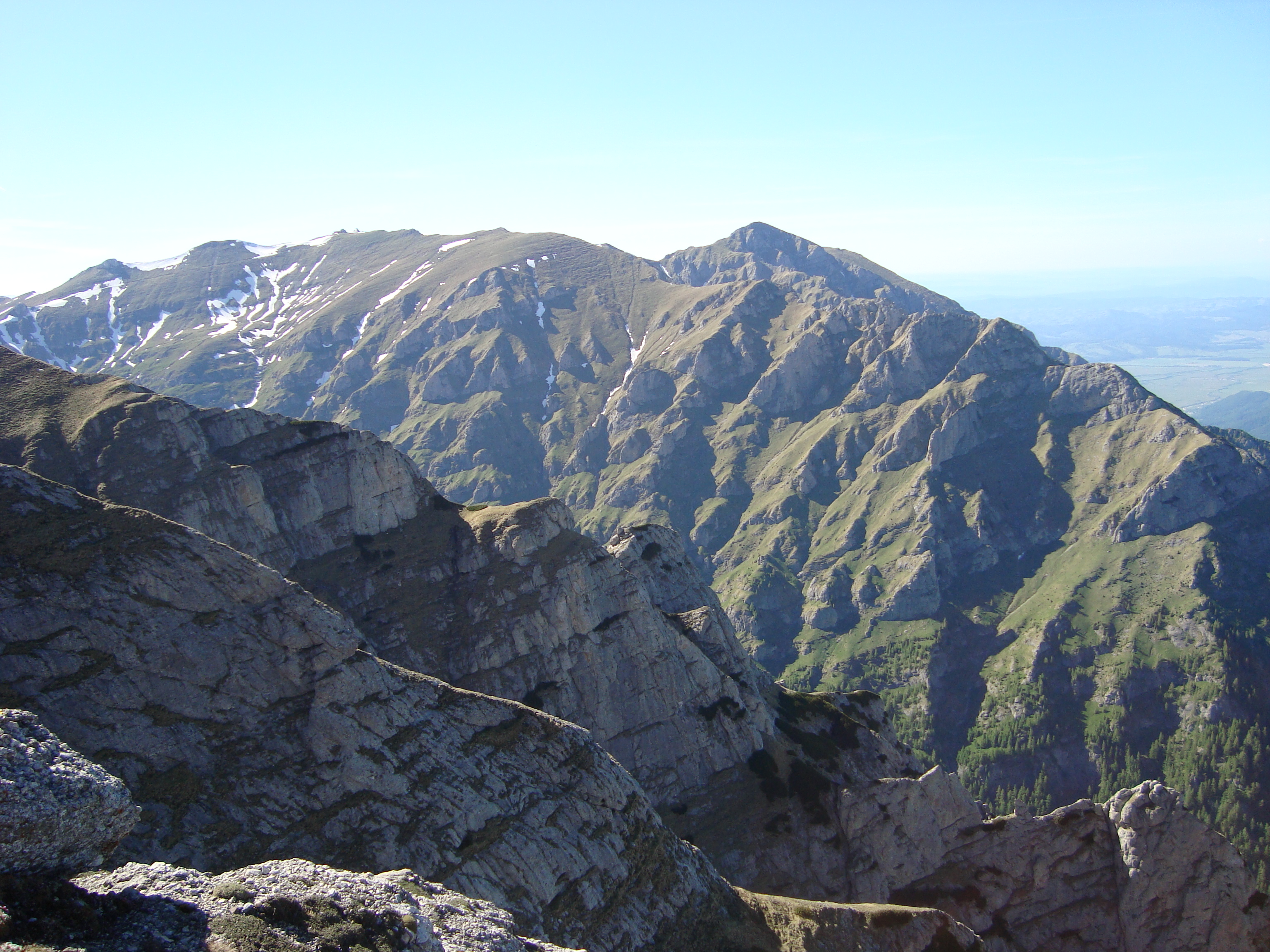 View from Costila peak, towards Moraru Massif